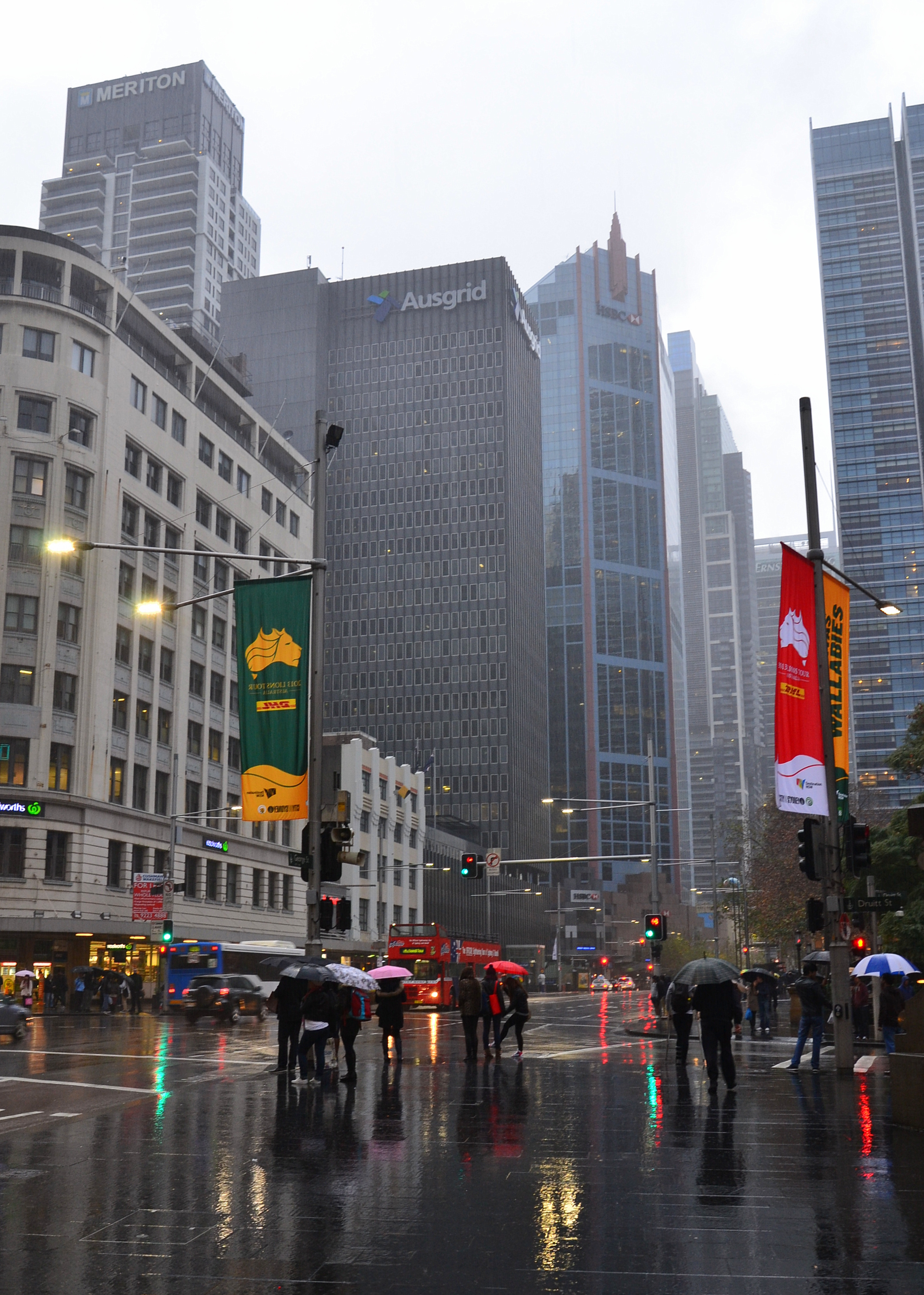 George St, Sydney, on a rainy day